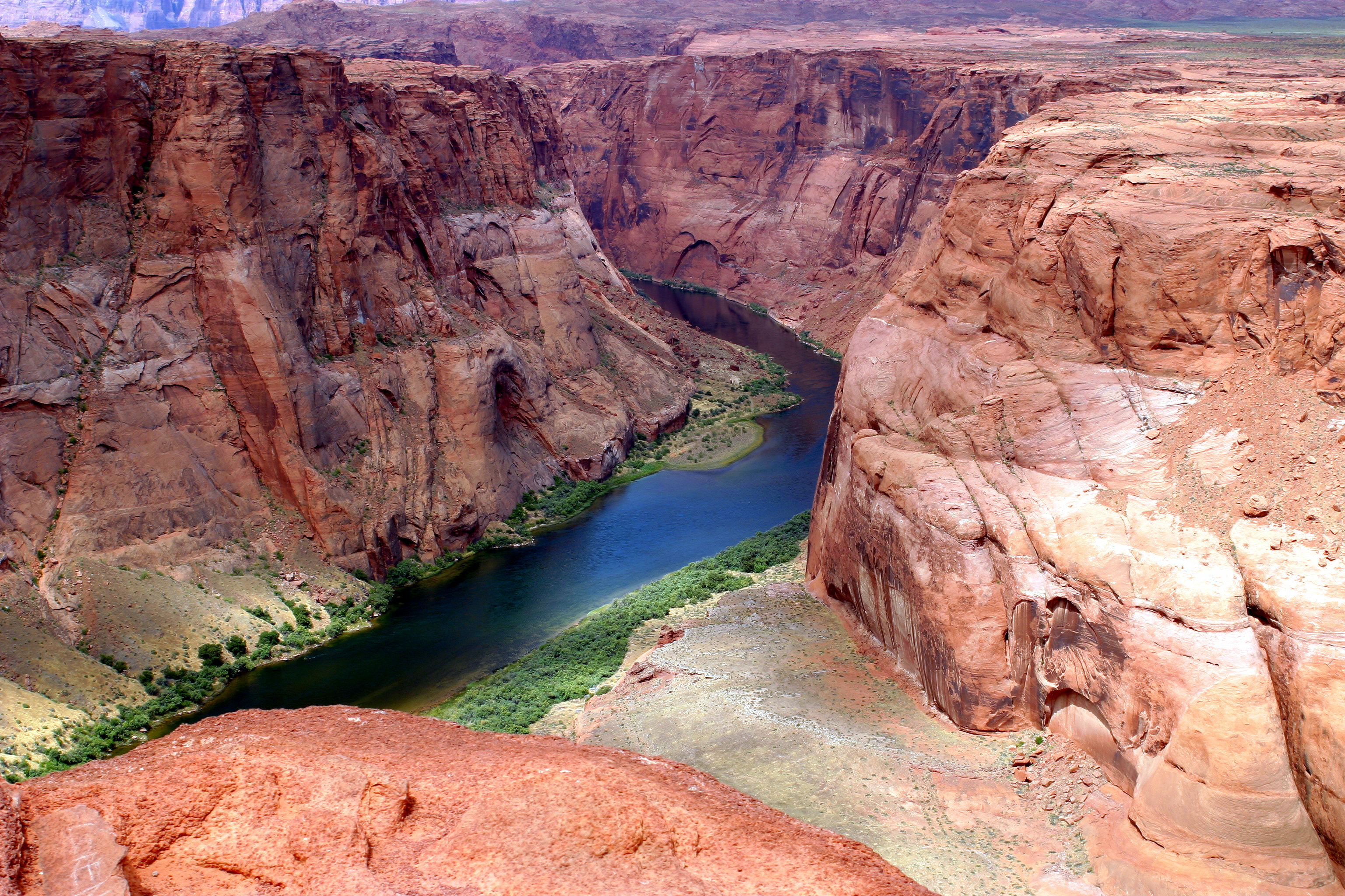 Edited version of Image:Colorado River.jpg. Increased contrast and sharpened. Original description: Rivière Colorado près de Page, Arizona